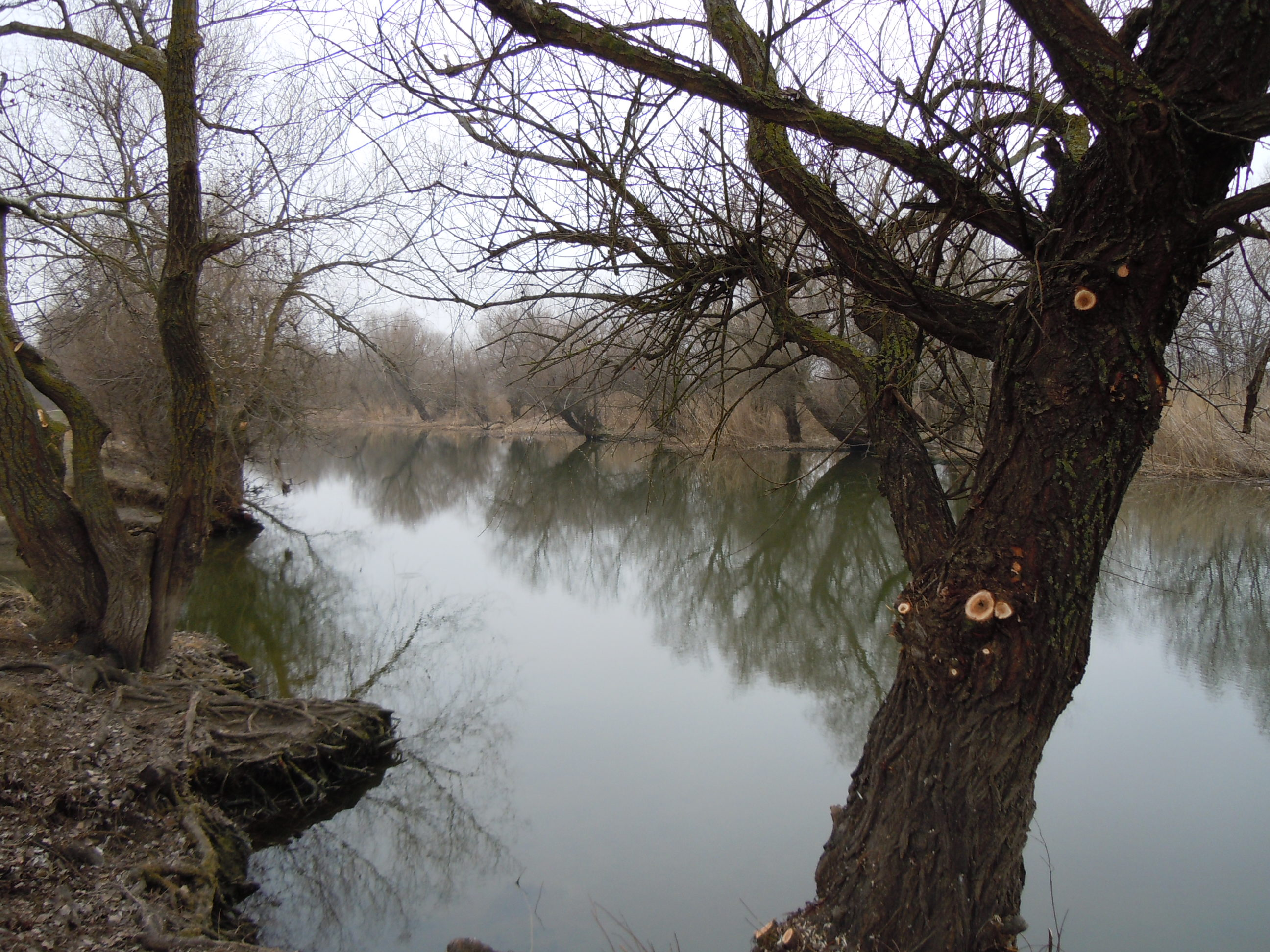 The canal to Safyany Lake, Biliayivka